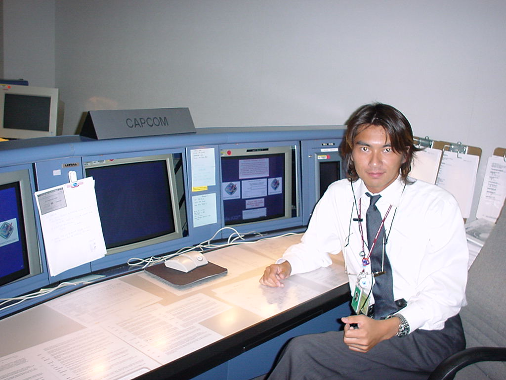 Taichi Yamazaki in JAXA Capcom?